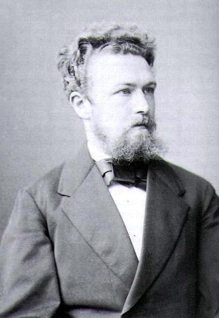 Otto Taschenberg (1854-1922) - zoologist, custodian at zoological institute at university Halle-Wittenberg, Germany, since 1882, a. o. professor since 1888